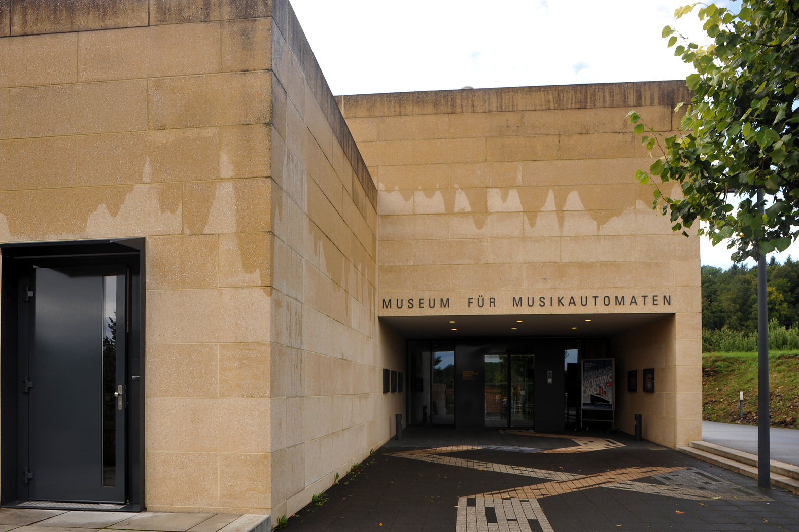 Museum of Music Automatons in Seewen; Solothurn, Switzerland.